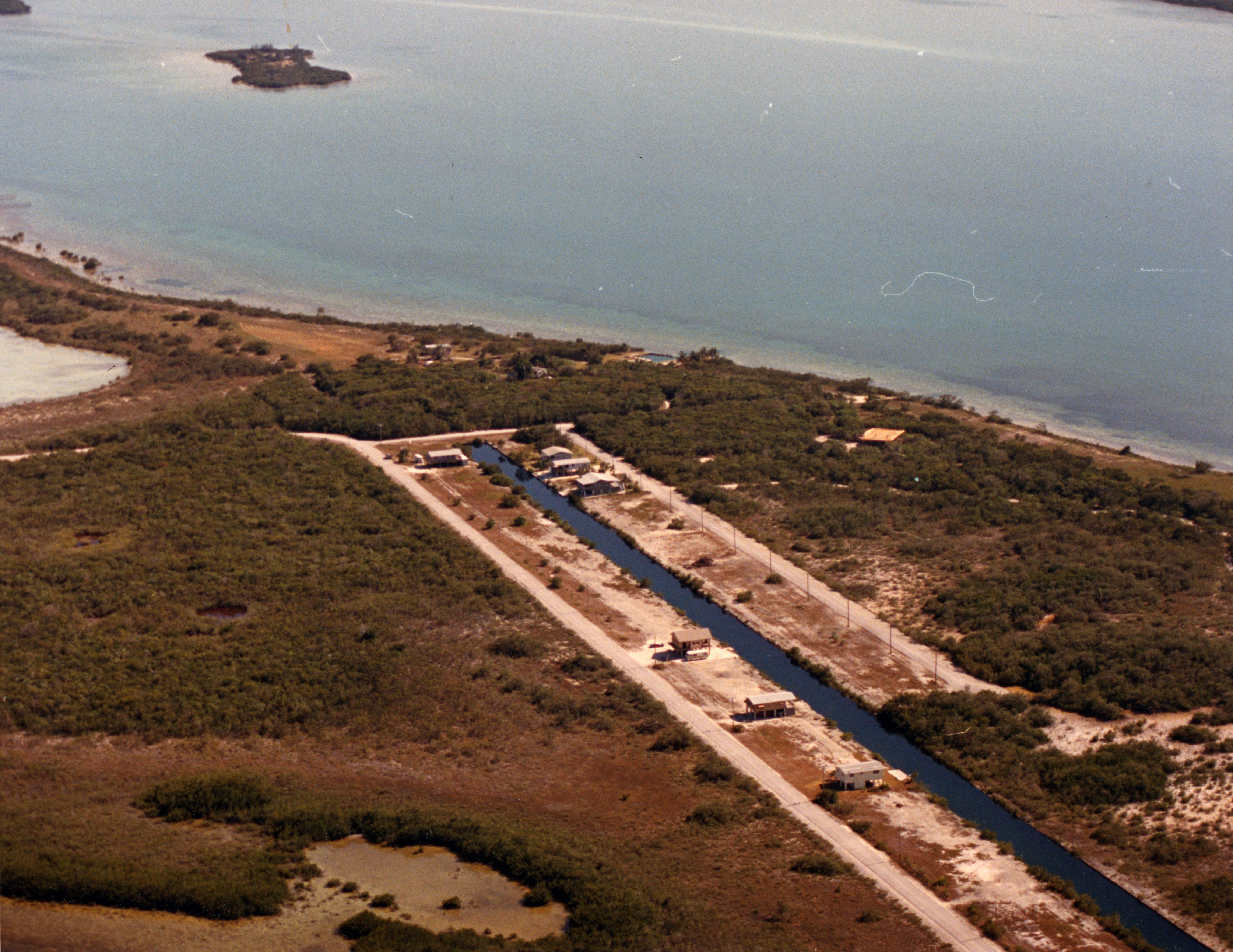 An aerieal of Big Torch Key. Photo taken by the Federal Government on October 7, 1987. From the Wright Langley Collection.